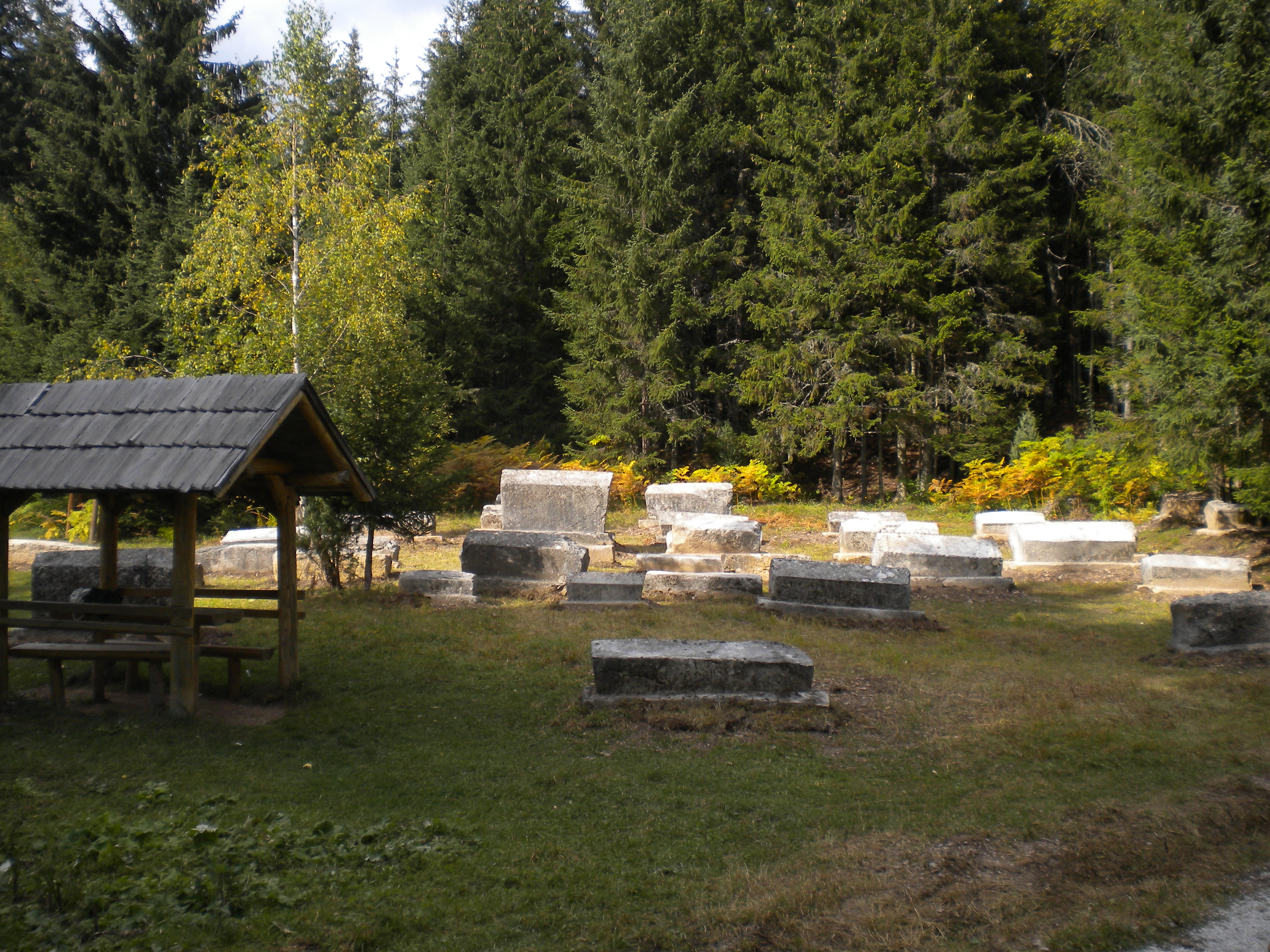 Tombstone Bijambare